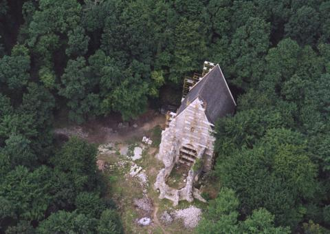 Martonyi - monastery, Hungary, aerialphotography